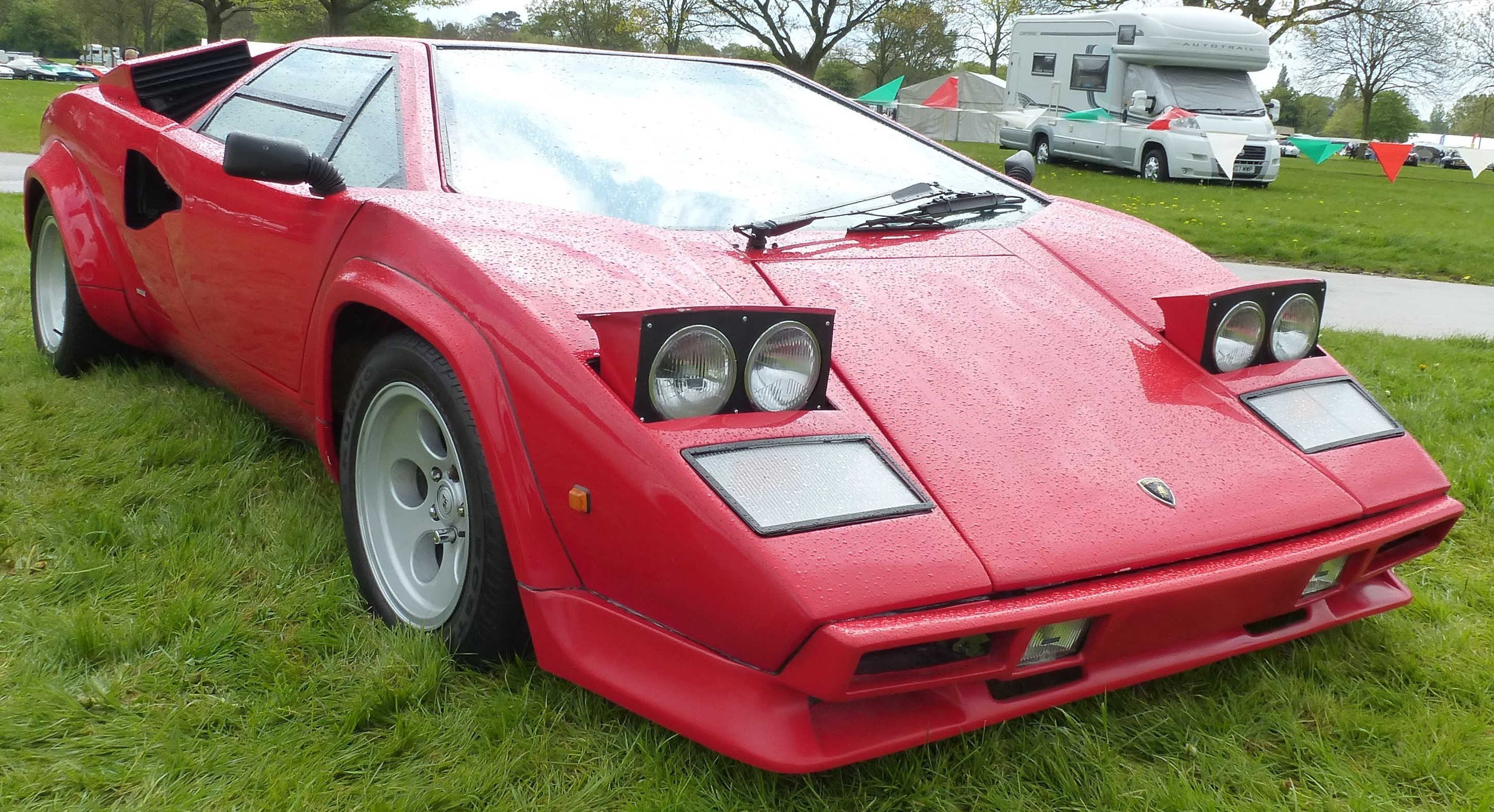 Masterco Countach